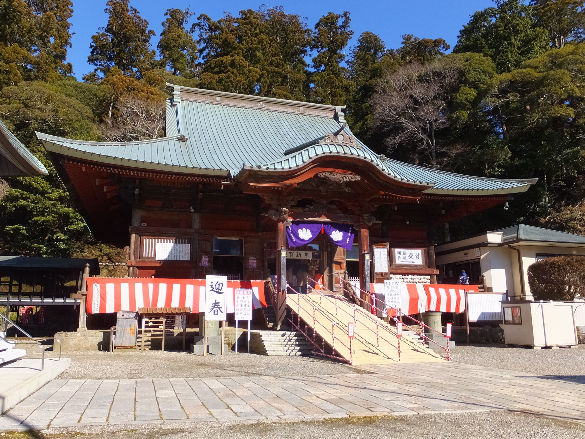 Daidō (main hall) of Seichō-ji temple in Kamogawa, Chiba Prefecture